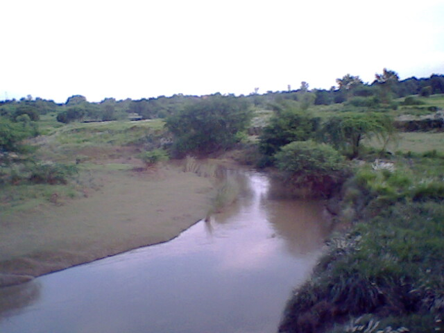 This is view of Reth river in Barabanki city as seen from railway bridge crossing over it. Picture taken by Faiz Haider, using LG KP119 (Dynamite) phone on Saturday, September 18, 2010, 16:08:12.